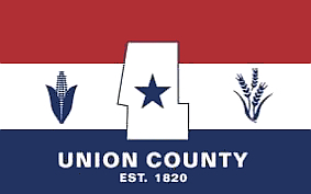 Flag of Union County, Ohio. Information about the flag's design and history can be found at the Ohio Statehouse website.